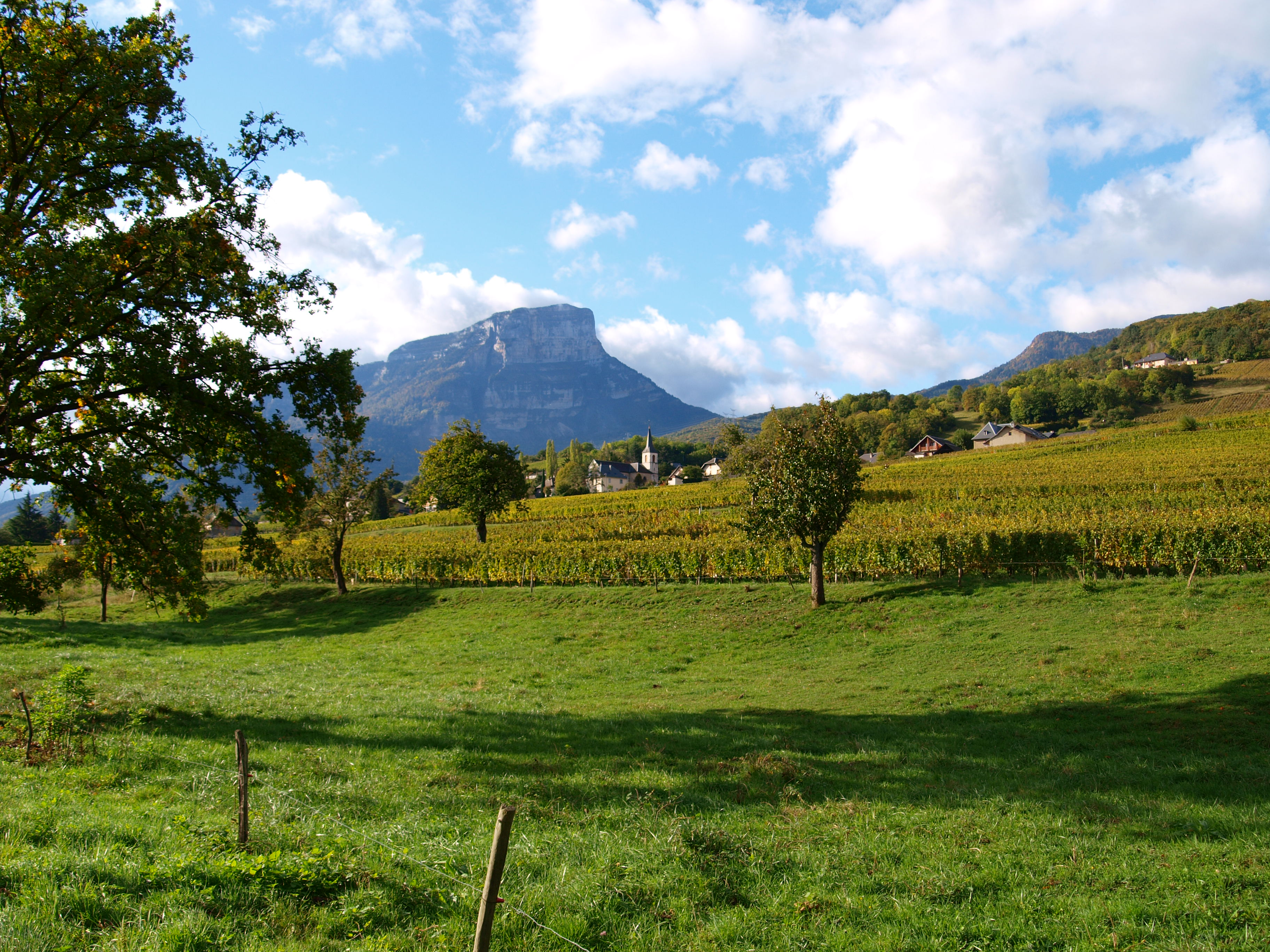 St-Pierre village in Apremont with mount Granier backside.